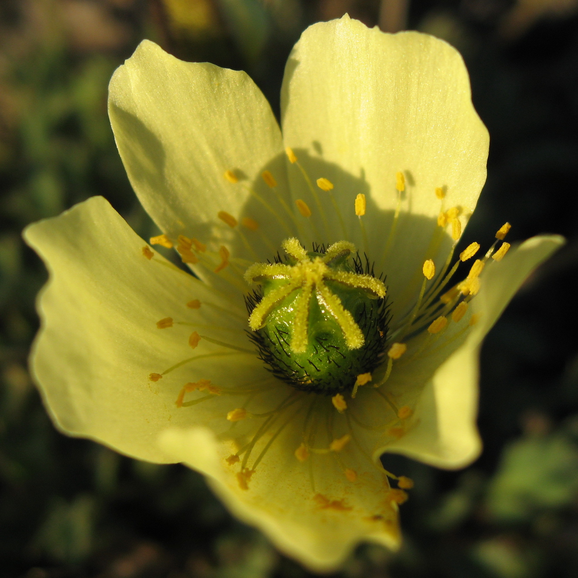 Flower of Papaver radicatum (Arctic Poppy) near Upernavik, Greenland